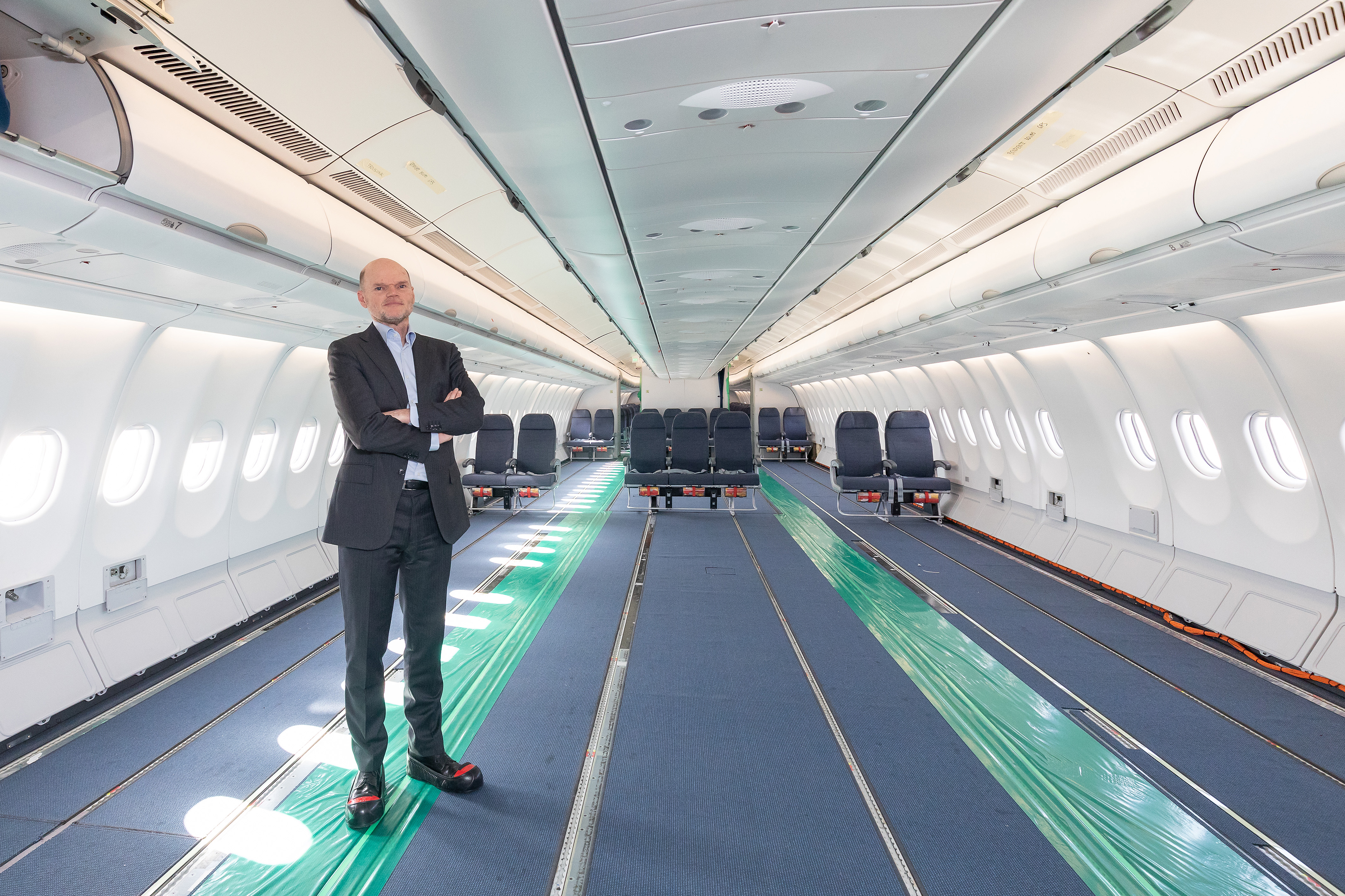 From passenger aircraft to military tanker aircraft. The first 2 of a total of 8 A330 aircraft are currently being converted in Getafe, Spain. The Netherlands has bought this together with 4 NATO partners. That means that the KDC-10s, the current tankers of the Royal Netherlands Air Force, can retire. The Airbus A330-MRTT is intended for Multi Role Tanker Transport. Aircraft fill up in the air, with 111,000 litres of kerosene that the aircraft carries. But transporting a maximum of 267 people or up to 45,000 kilos of goods is no problem for the aircraft. The Netherlands has ordered 8 of these aircraft together with Norway, Germany, Luxembourg and Belgium.